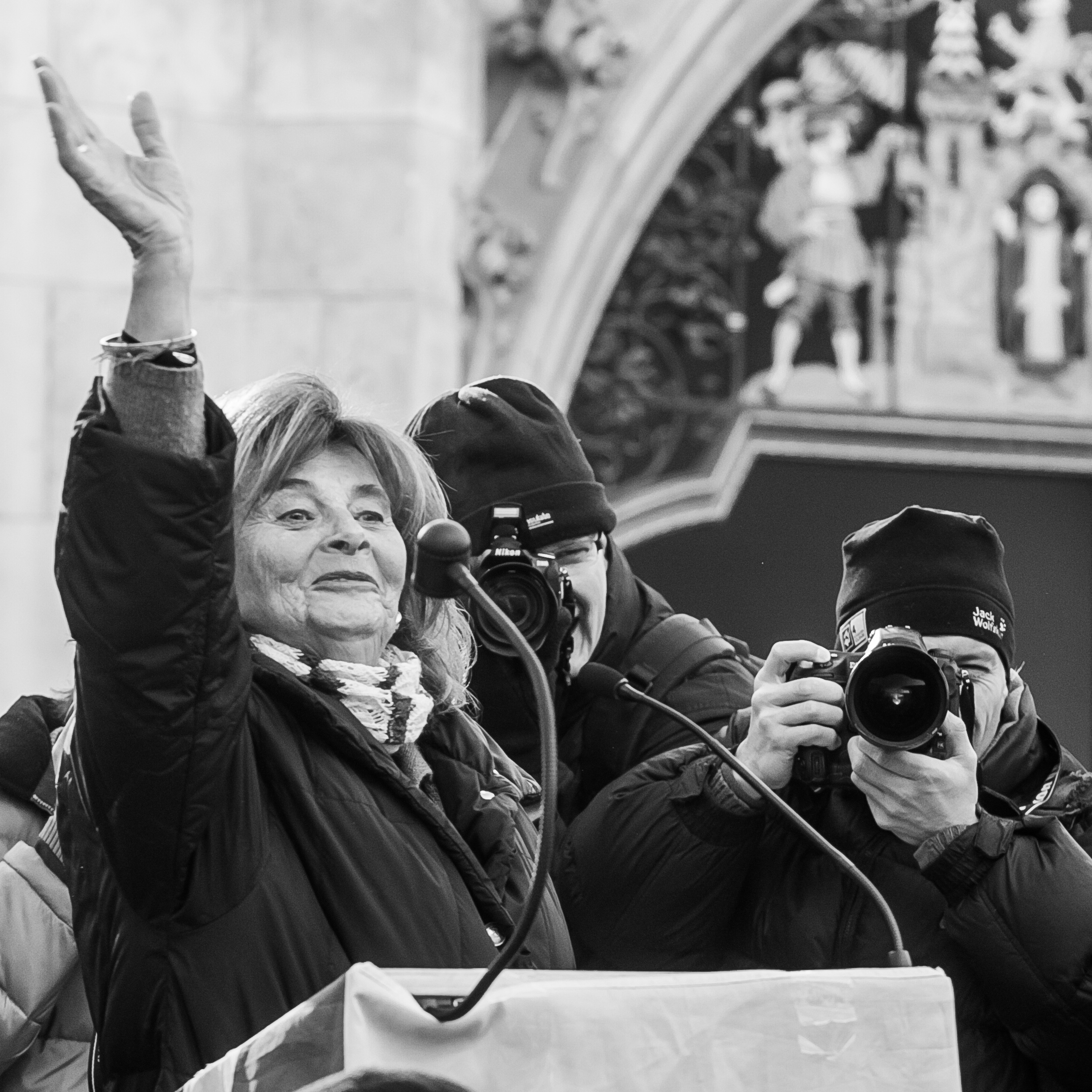 Charlotte Knobloch on meeting in support of the state Israel. 11 of January, 2009. Germany, Munich Marienplatz